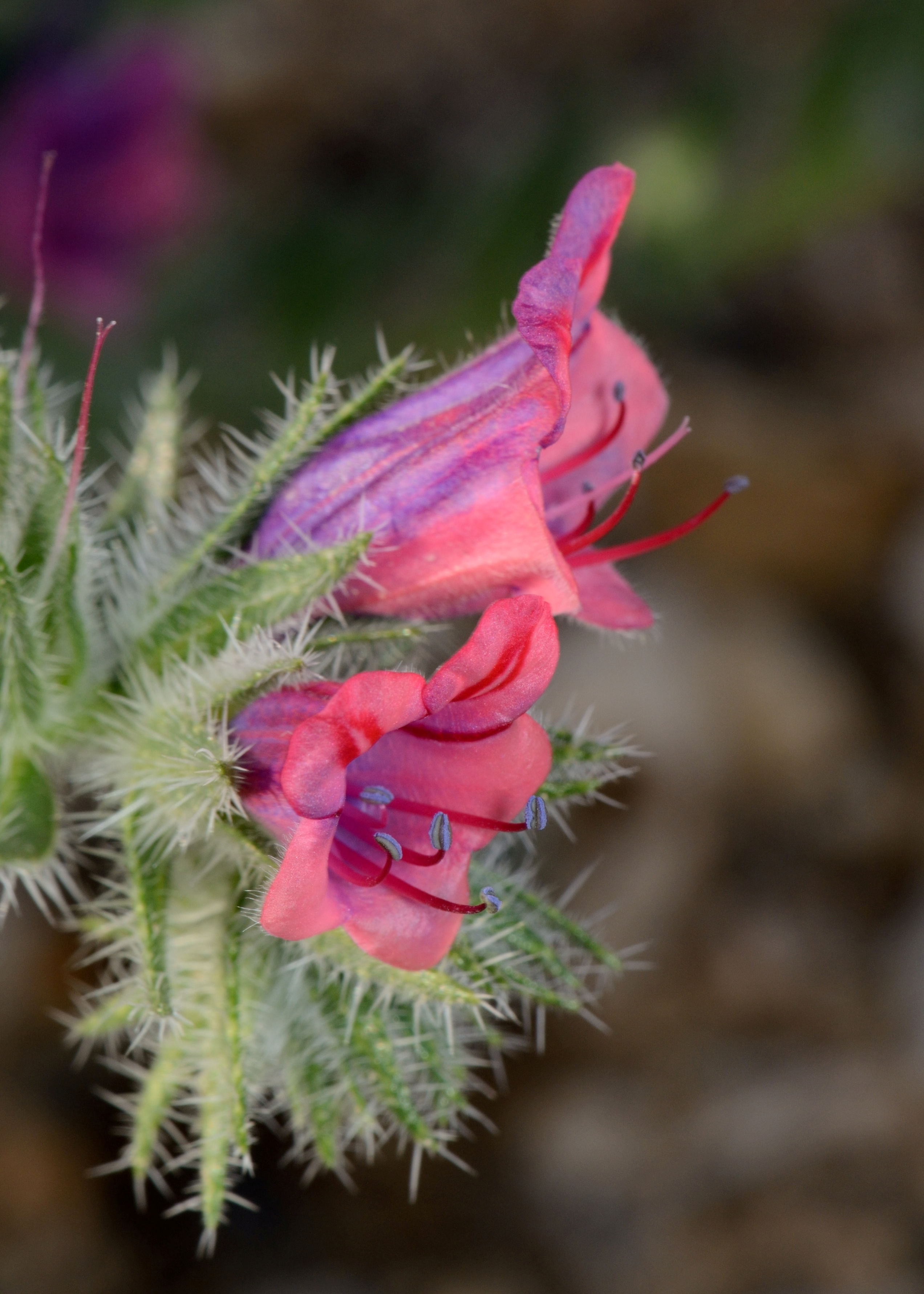 Echium rauwolfii Delile, Rift Valley, Israel, February 7, 2013.